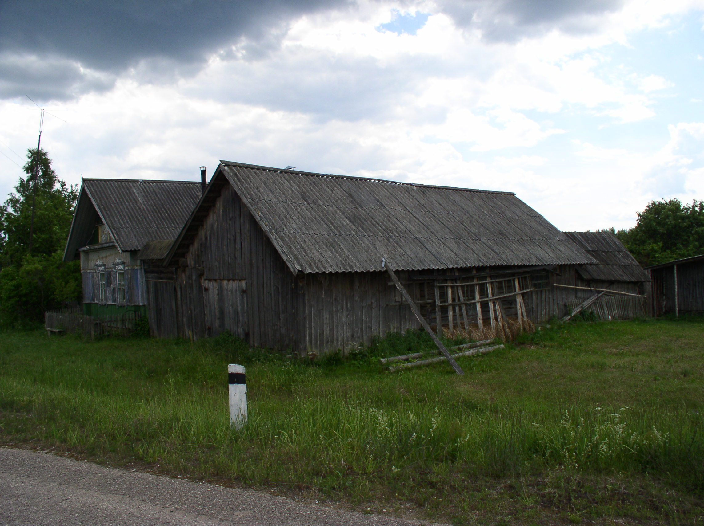 House. Kovalikha, Pskov Oblast, Russia.